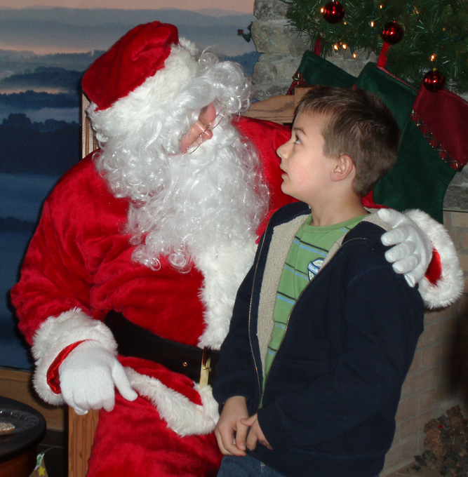 Santa with boy